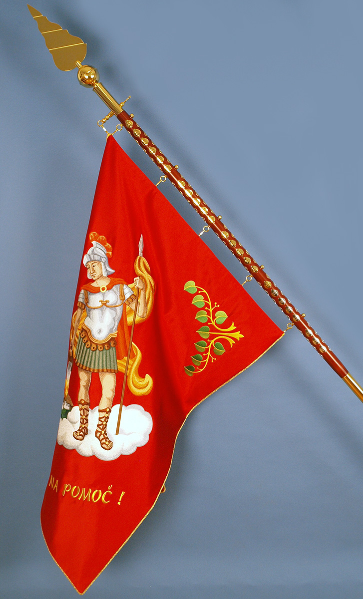 Typical embroidered banner of a firemen society in Slovenia.